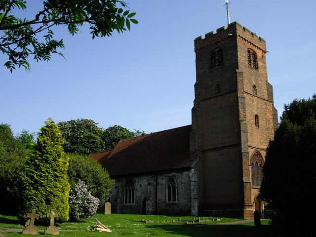 St Andrew's parish church, North Weald, Essex, seen from the northwest